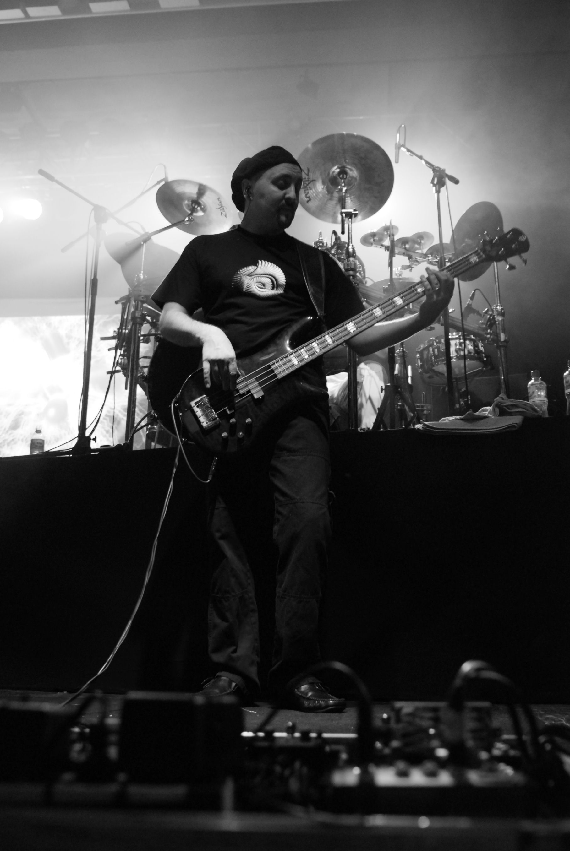 COLIN EDWIN from Porcupine Tree during concert in TS Wisła in Kraków To zdjęcie powstało dzięki współpracy z Rock-Servis